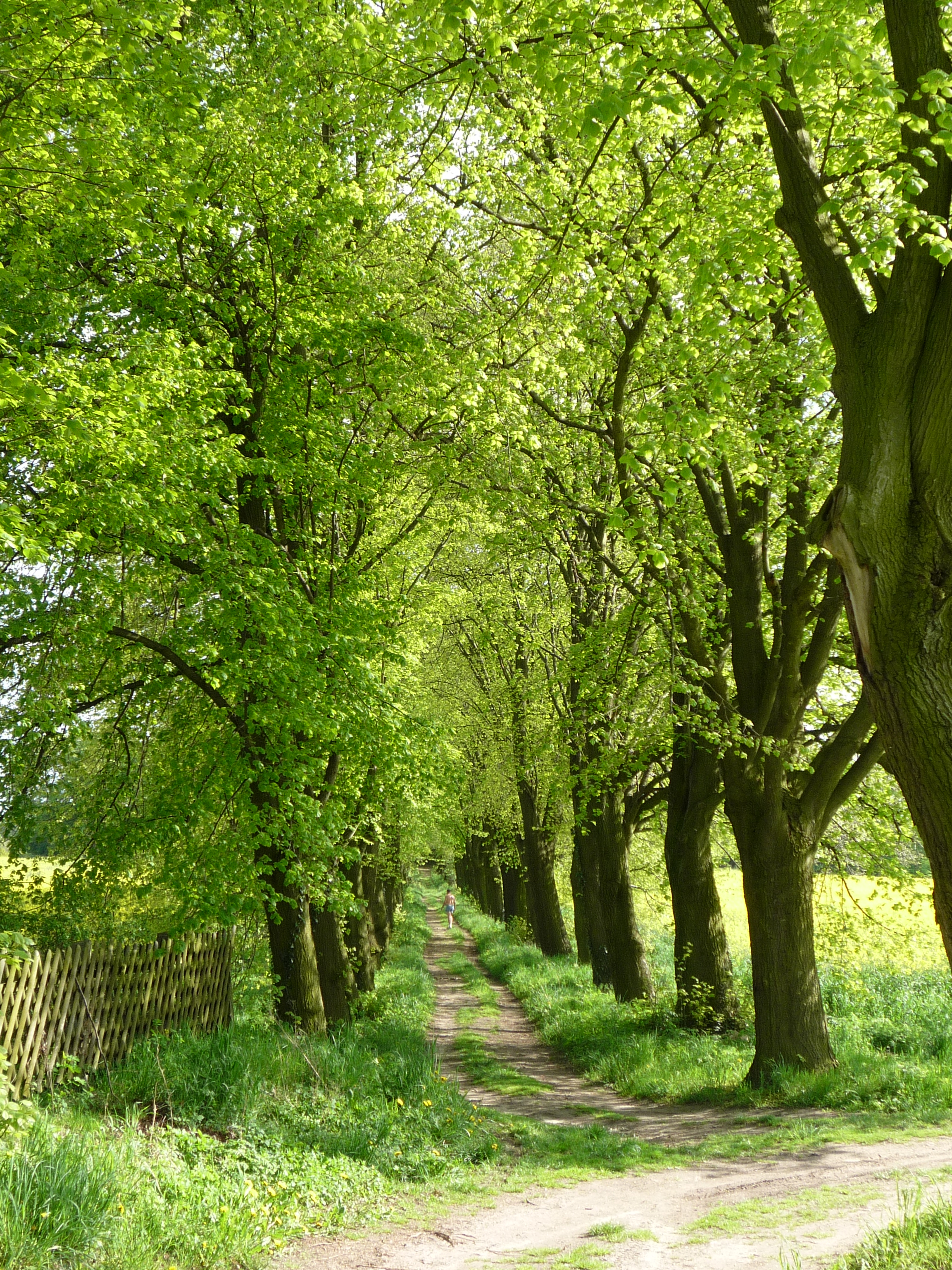 Old alley in Hagelberg